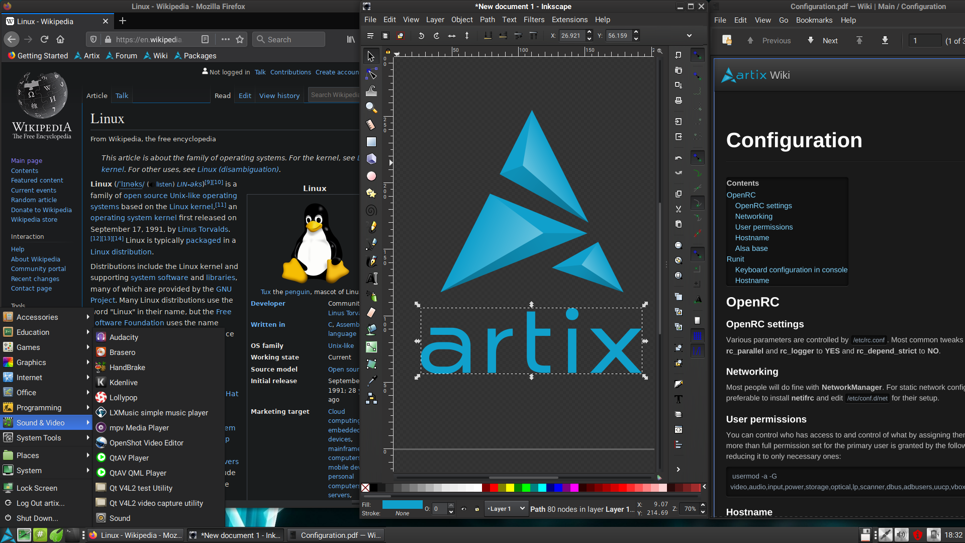 Screenshot of Artix community-gtk edition 2020-02 featuring Firefox, Inkscape and Atril document viewer.